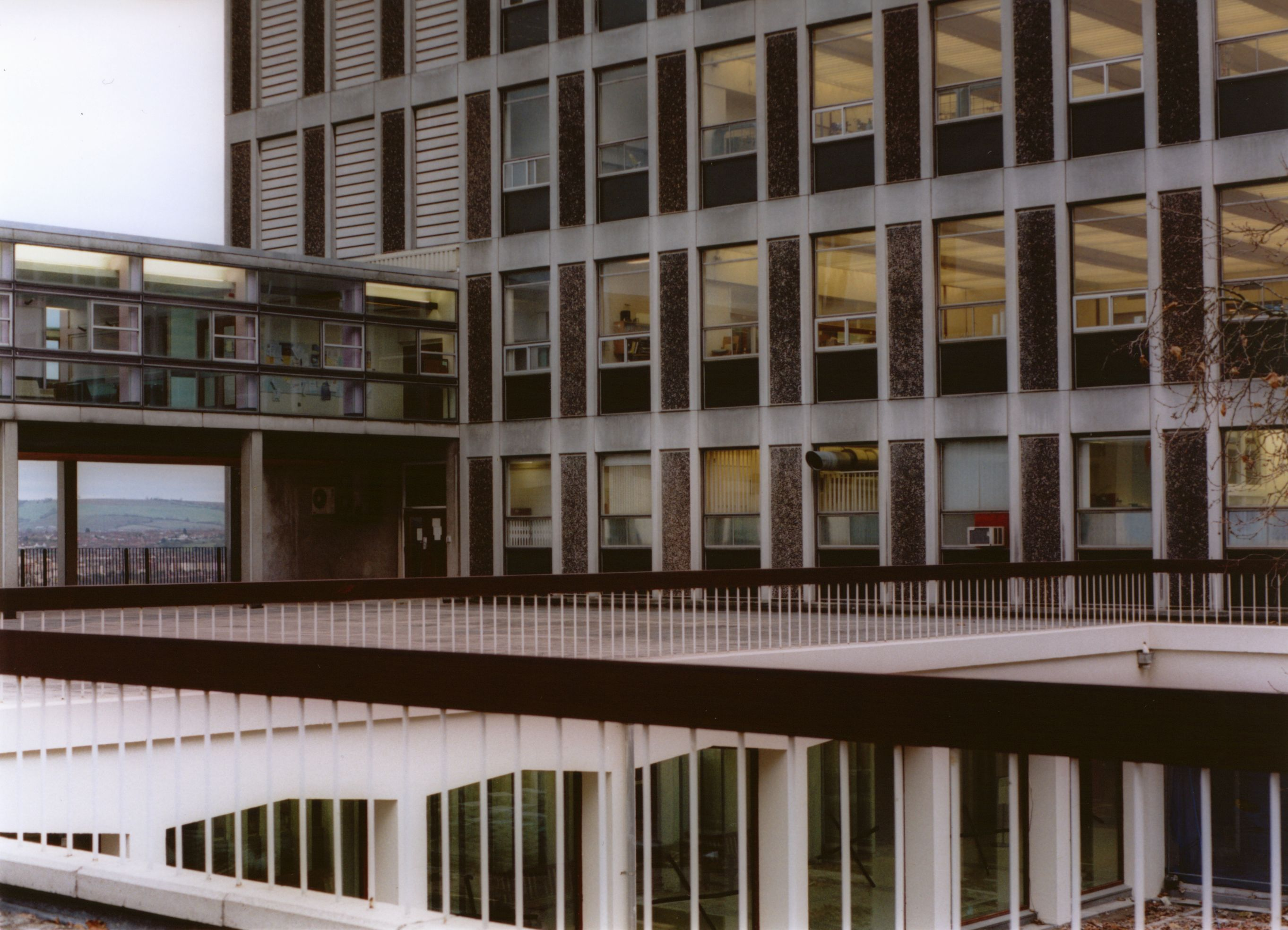 Old Chemistry Department at the University of Bristol, UK